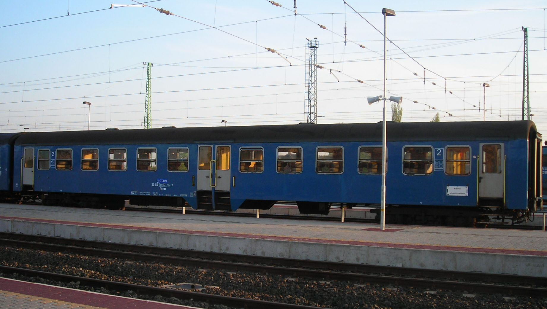 Type Bhv coach of the Hungarian railway, Cegléd Hungary